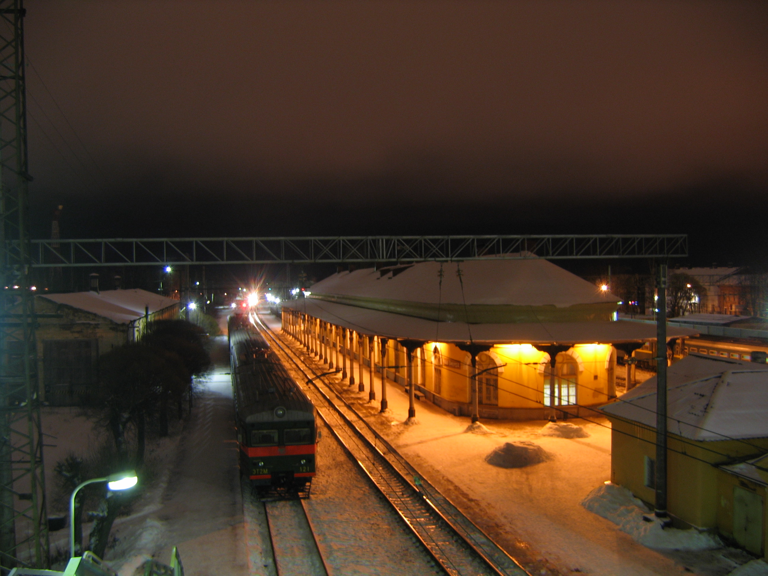 Night at Malaya Vishera railway station, Novgorod region, Russia